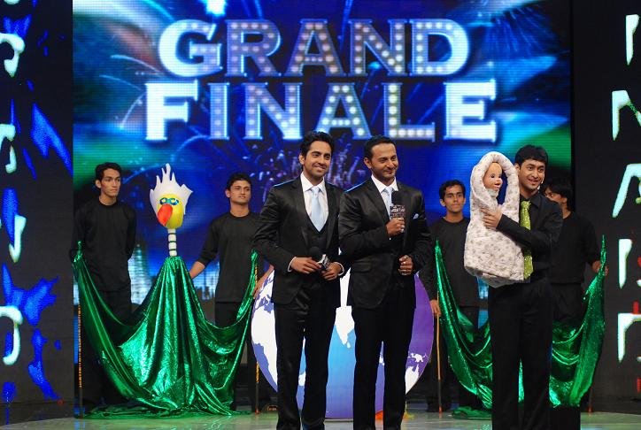 This shows Satyajit Padhye and his puppets in Grand Finale of India's Got Talent